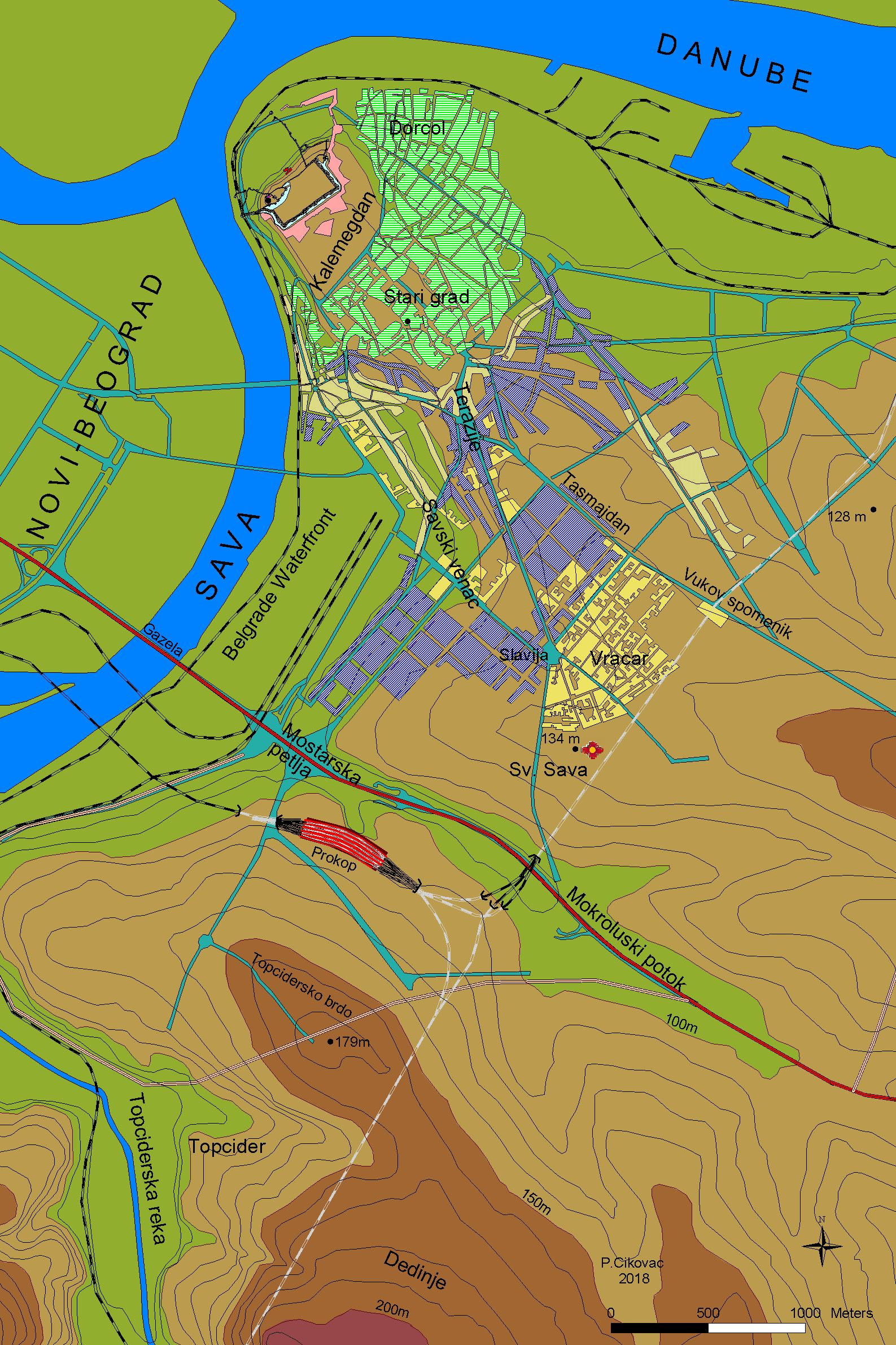 Sv sava topography P.Cikovac